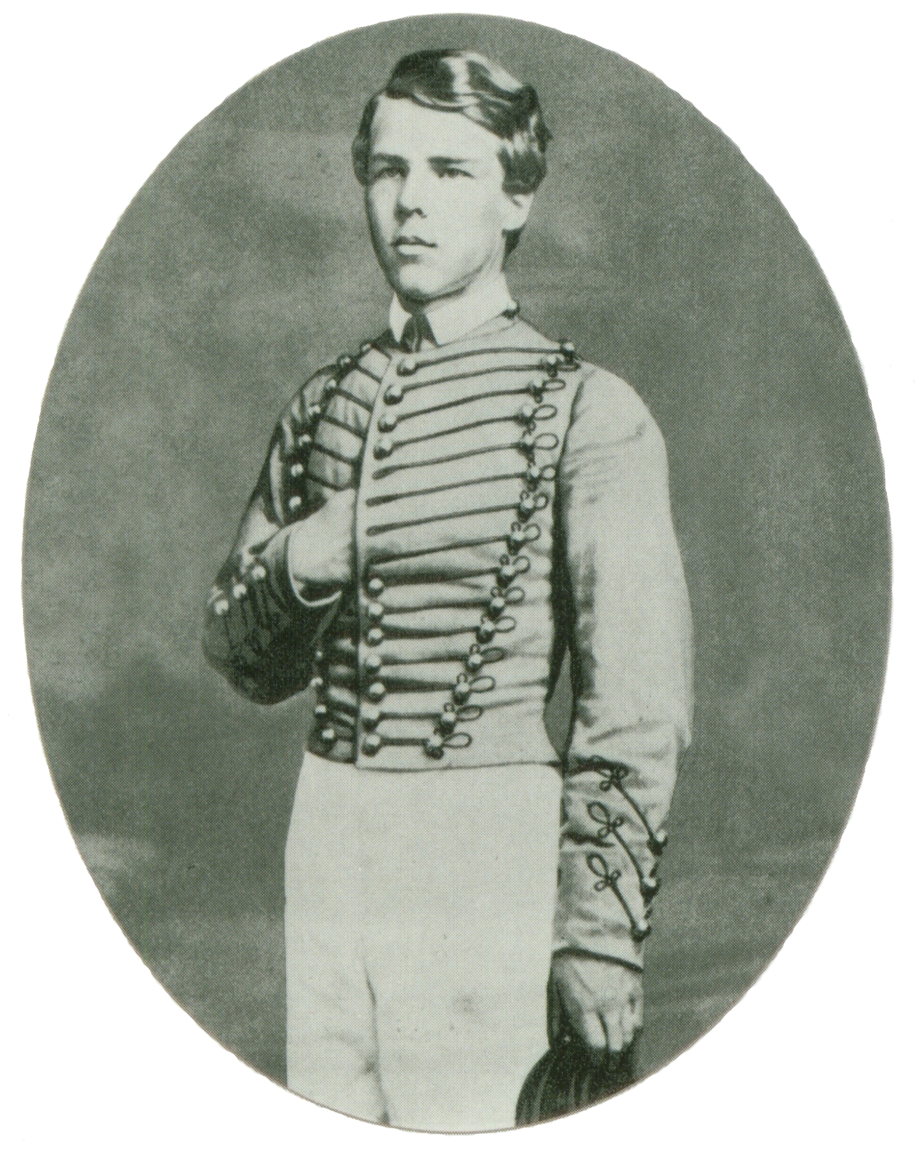 United States Army portrait of John Rodgers Meigs, a cadet at the United States Military Academy at West Point, New York. Meigs entered the academy in September 1859 and graduated in June 1863.